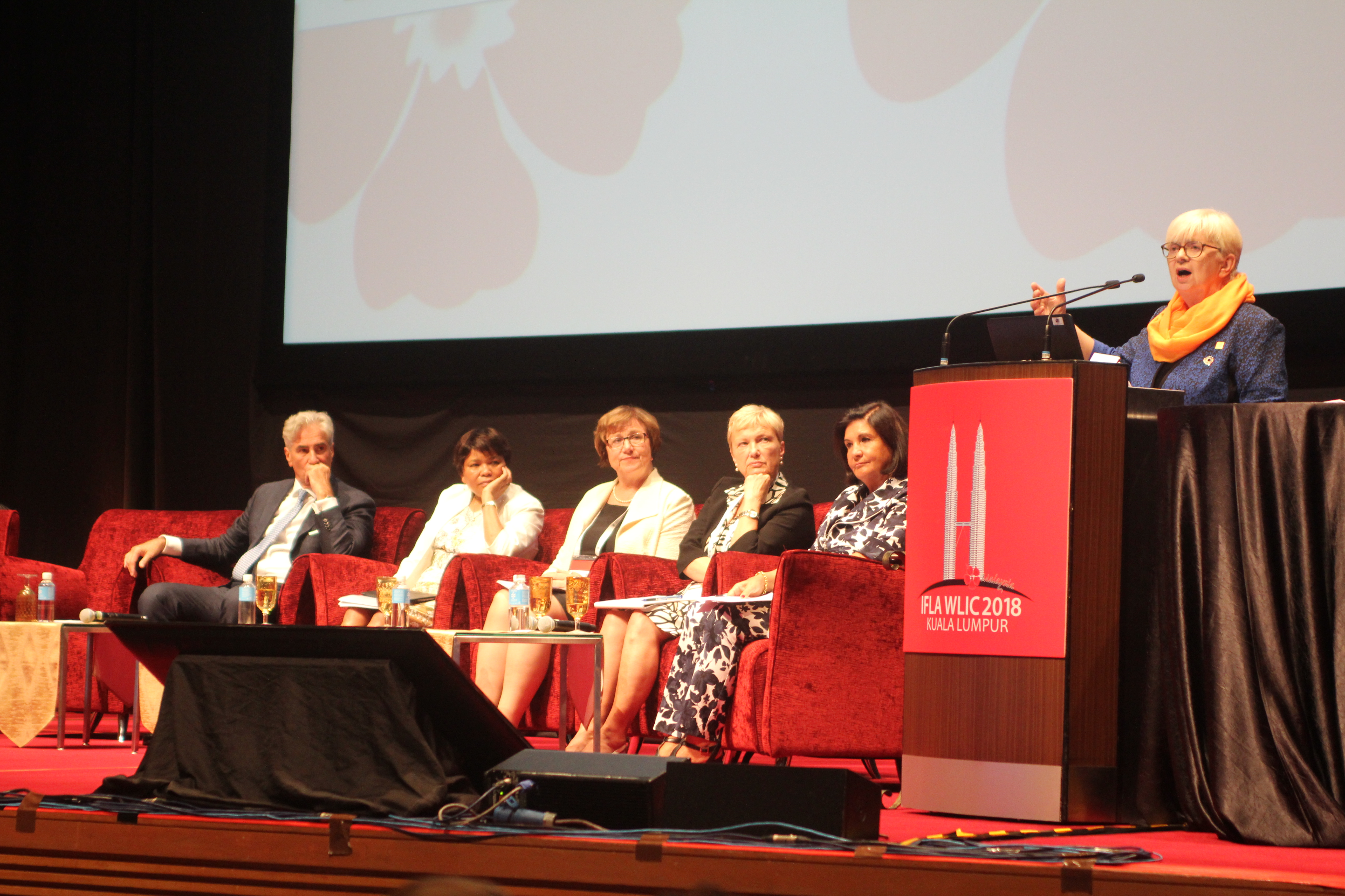 Presentation at the World Library and Information Congress 2018, Kuala Lumpur